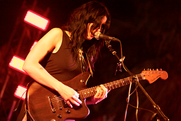 Photograph of Chelsea Wolfe performing at the Desert Daze music festival, April 2013.